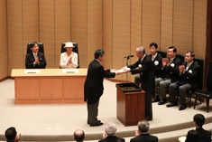 Emperor Naruhito and Empress Masako attended the Award Ceremony for the Imperial Prize and Japan Academy Prize at the Building of Japan Academy in Taitō Ward, Tōkyō Metropolis on June 17, 2019. Shirō Yamazaki, Professor of the Faculty of Social Information Studies, Otsuma Women's University, received the Medal of Japan Academy Prize from Hiroshi Shiono, President of Japan Academy.